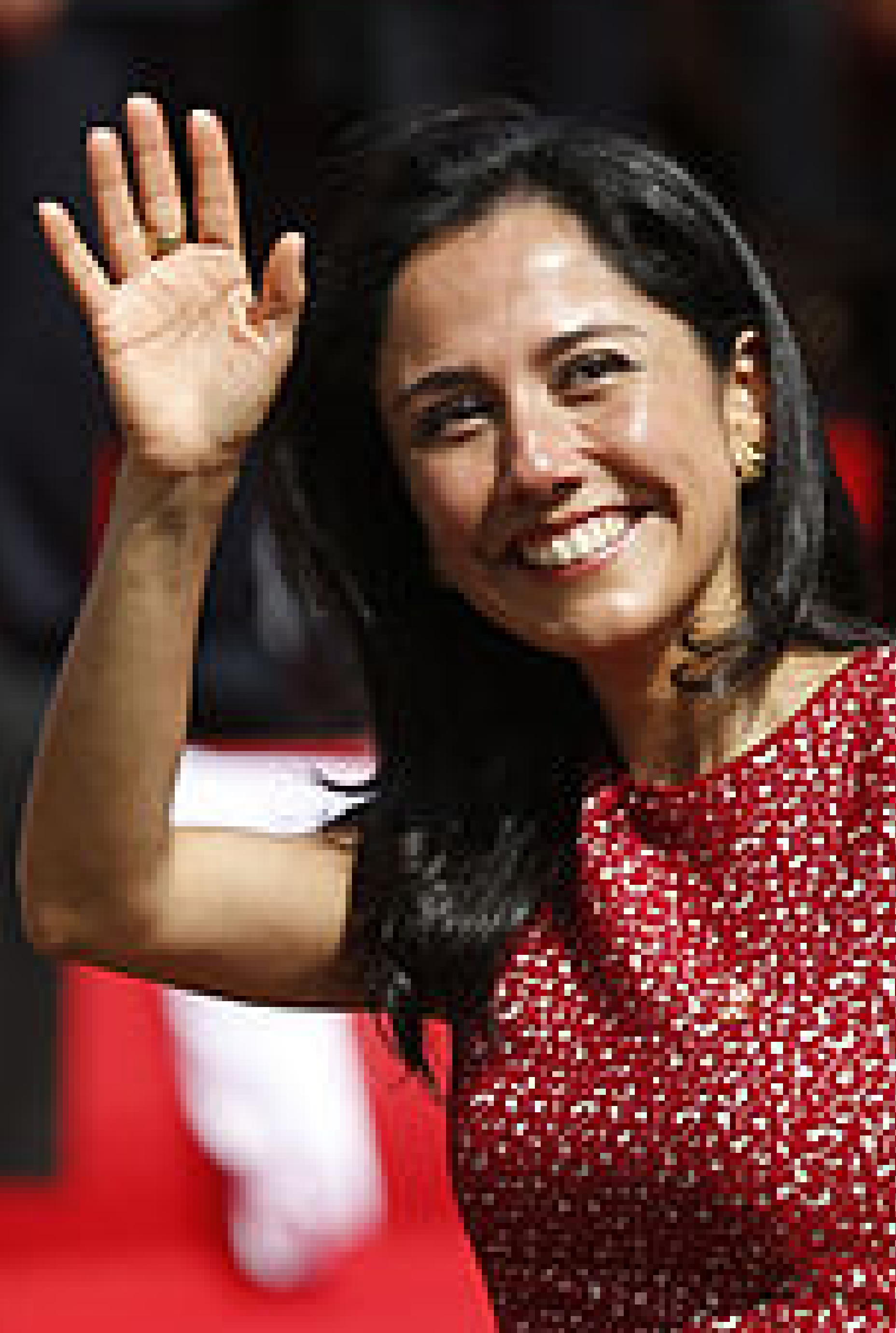 Nadine Heredia